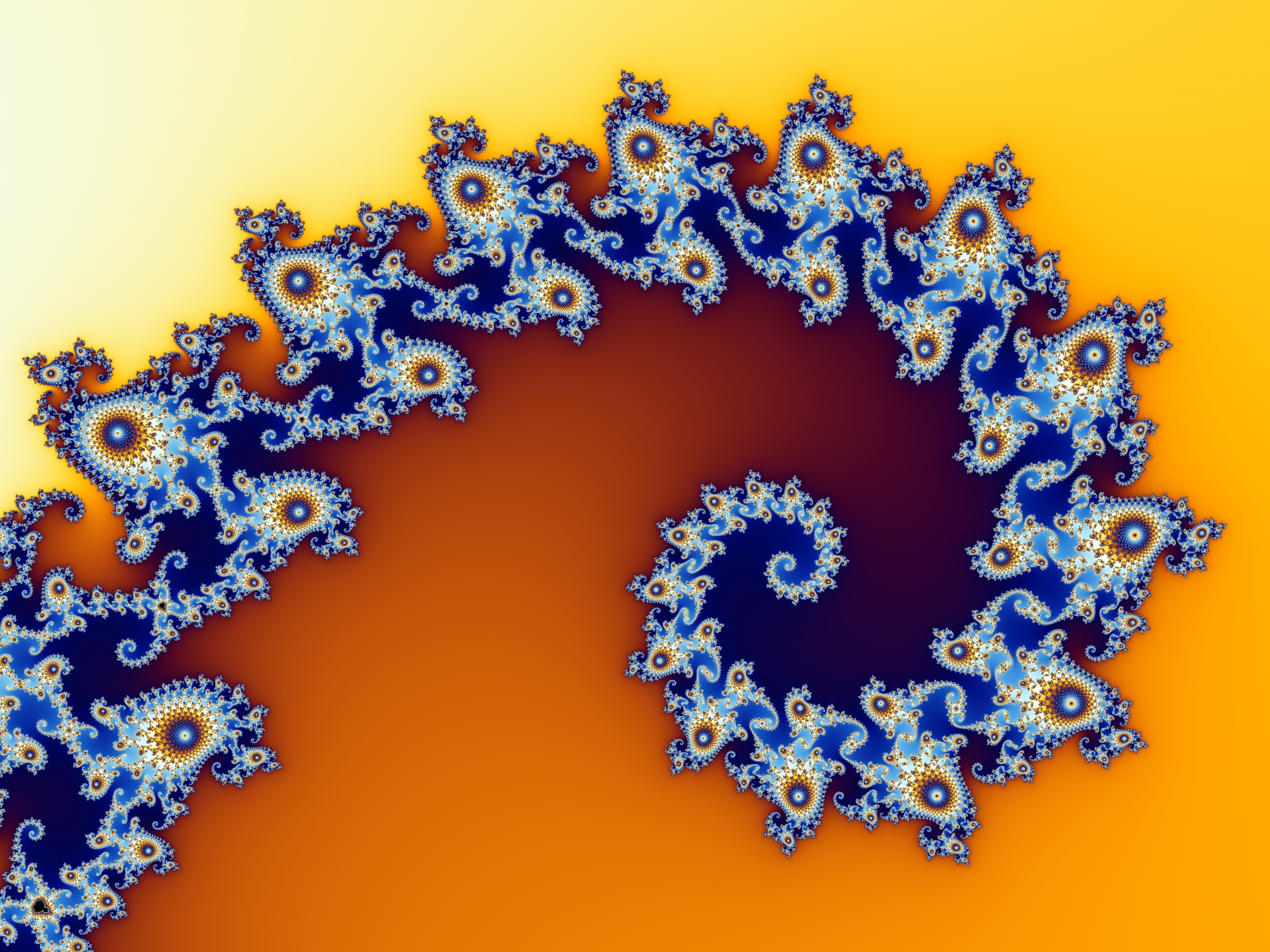 Partial view of the Mandelbrot set. Step 4 of a zoom sequence: The central endpoint of the "seahorse tail" is also a Misiurewicz point. Coordinates of the center: Re(c) = -.743,566,9, Im(c) = . 131,402,3 Horizontal diameter of the image: .002,287,8 Magnification relative to the initial image: 1,344.9 Created by Wolfgang Beyer with the program Ultra Fractal 3. Uploaded by the creator.